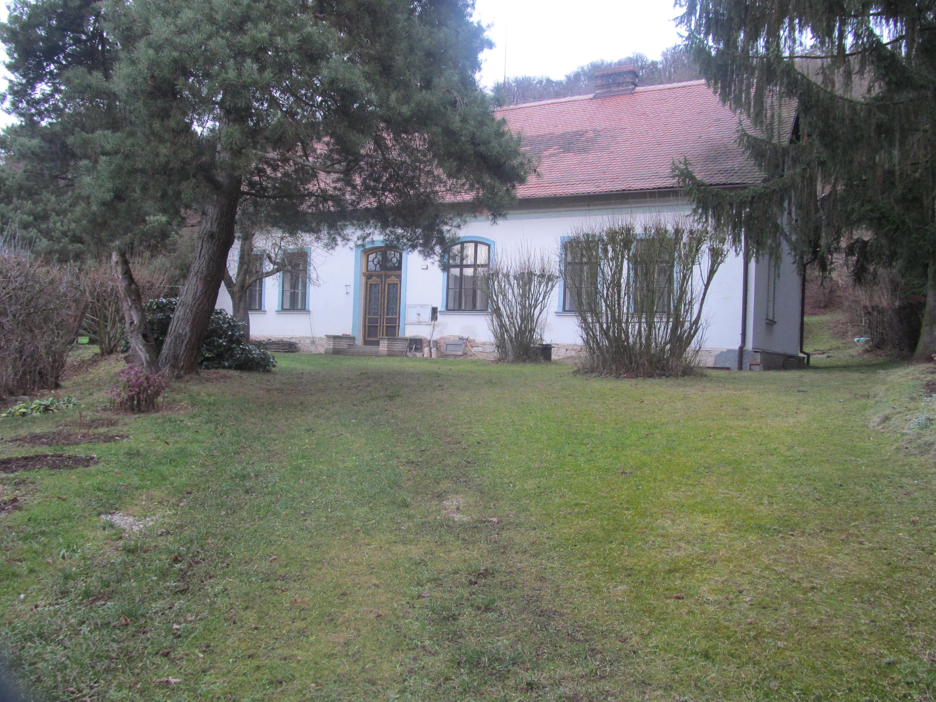 Former school in Sádek